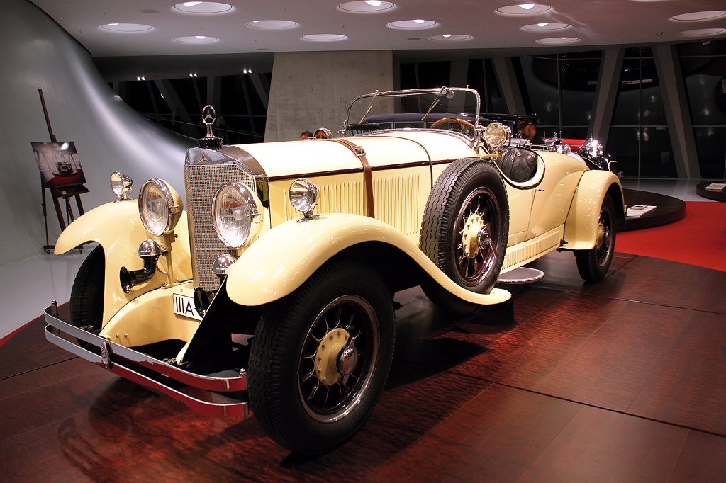 Visit at the Mercedes-Benz Museum, 09.04.2011